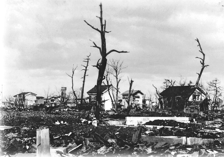 Nagaoka after the 1 August 1945 air raid